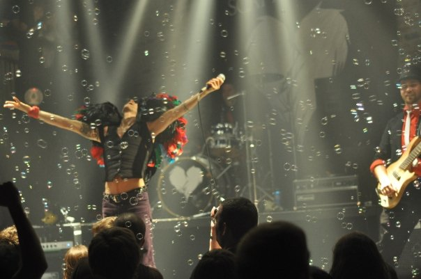 Scatterheart Bubbles at Richards